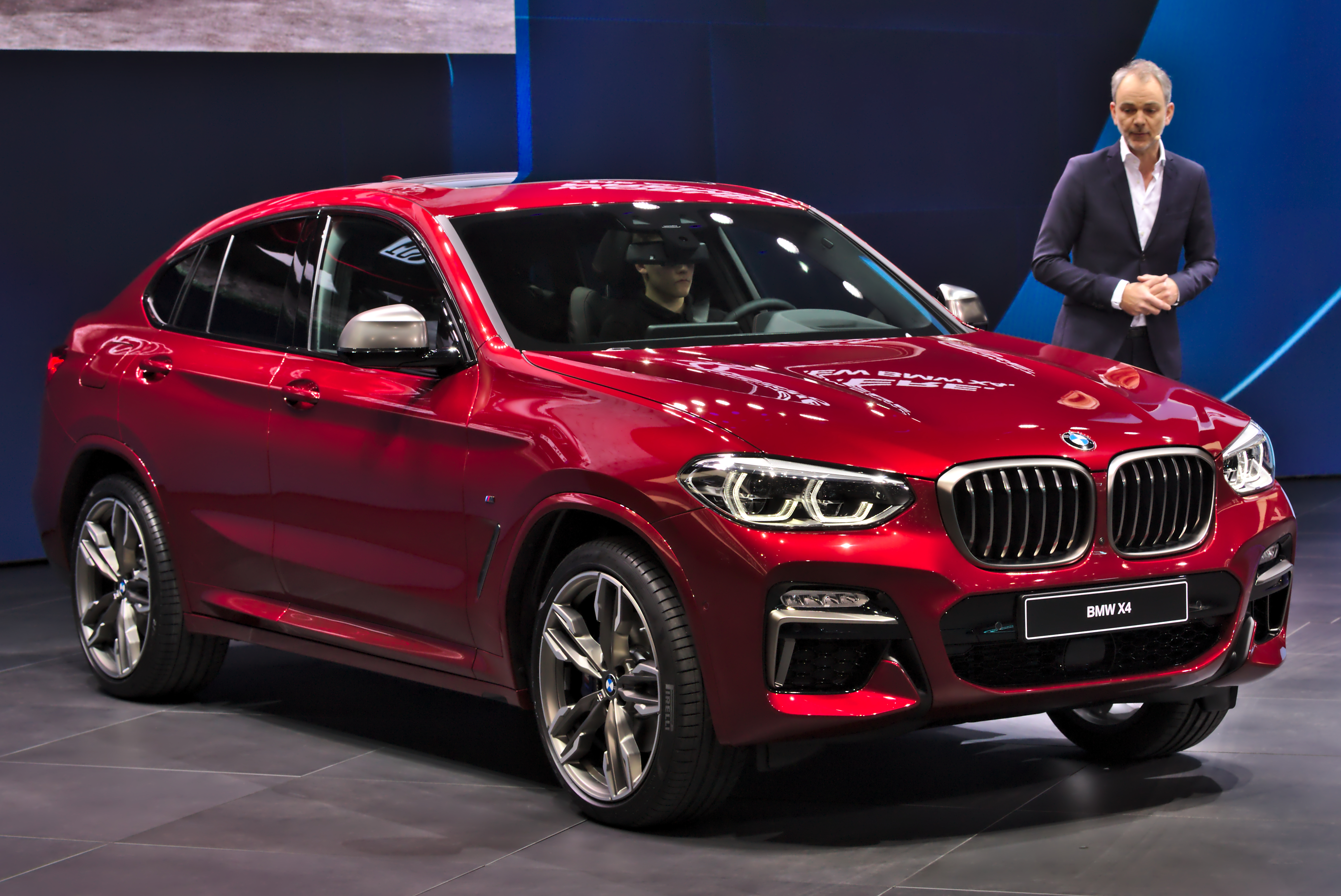 BMW X4 and Adrian van Hooydonk at Geneva Motorshow 2018